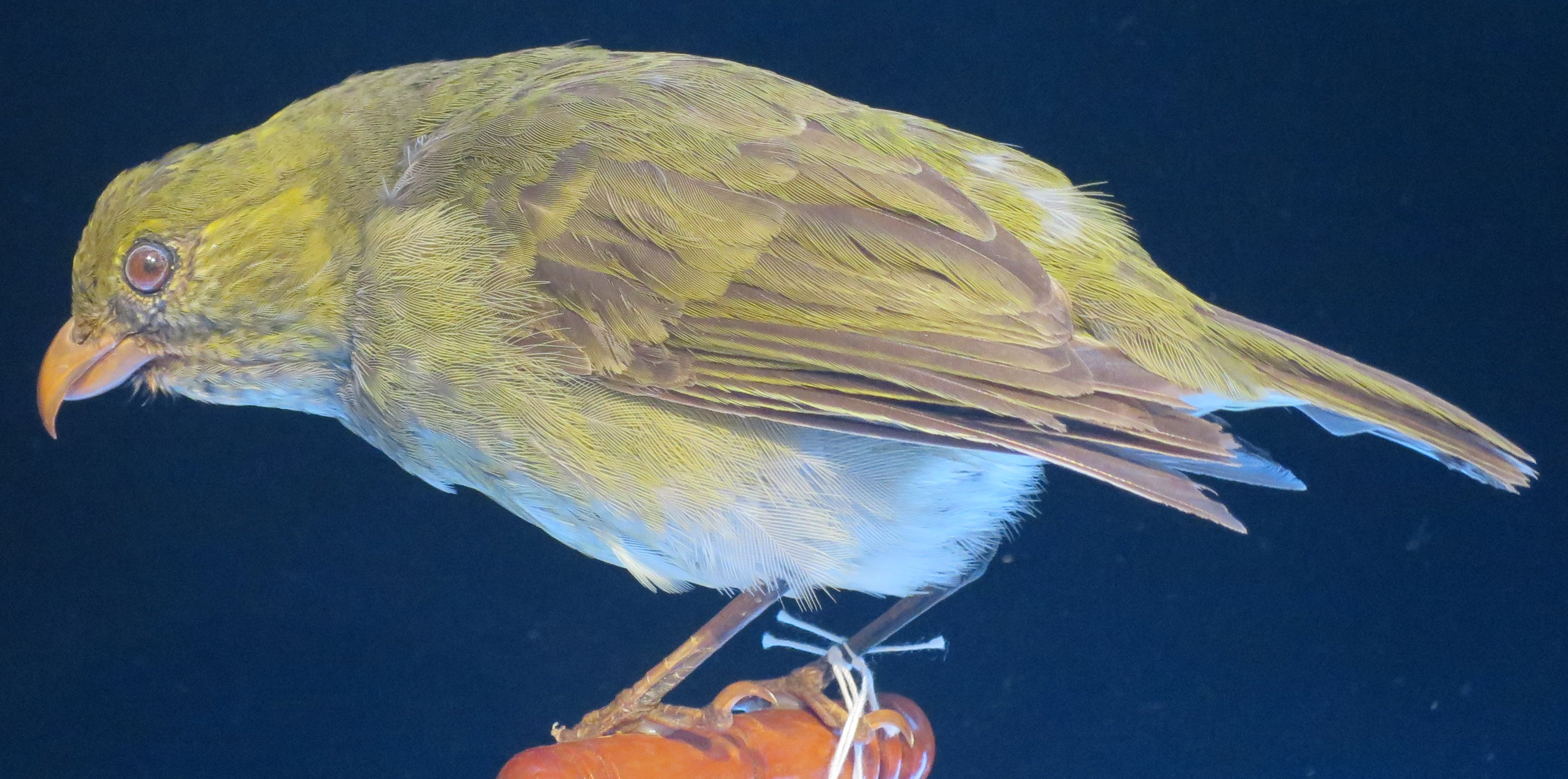 Psittirostra psittacea, male, Bishop Museum, Honolulu